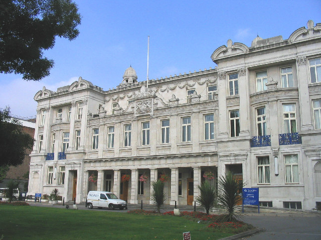 Queen Mary & Westfield College, Mile End